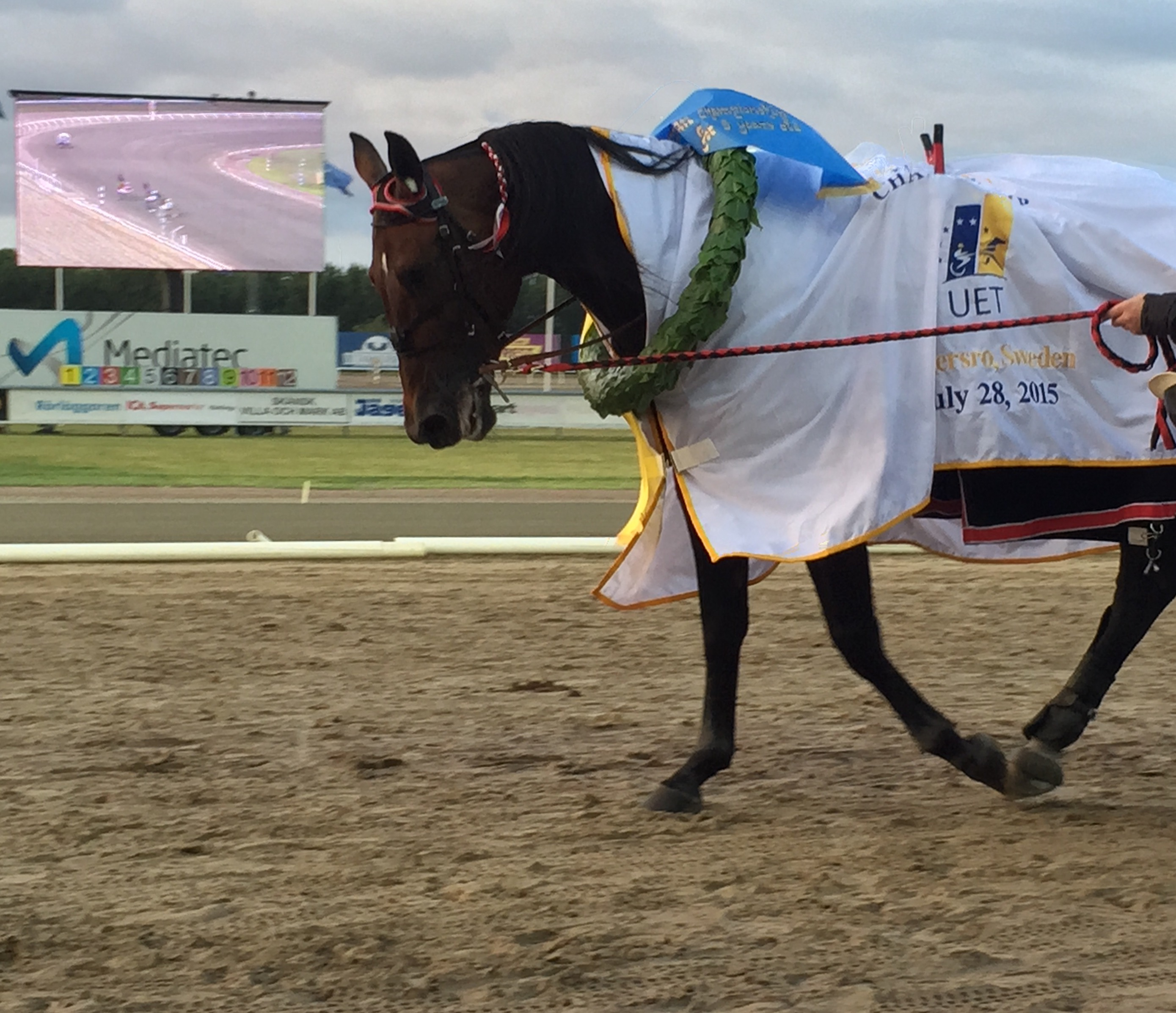 Robert Bi after winning European Championship for 5 years at Jägersro in Sweden 2015.